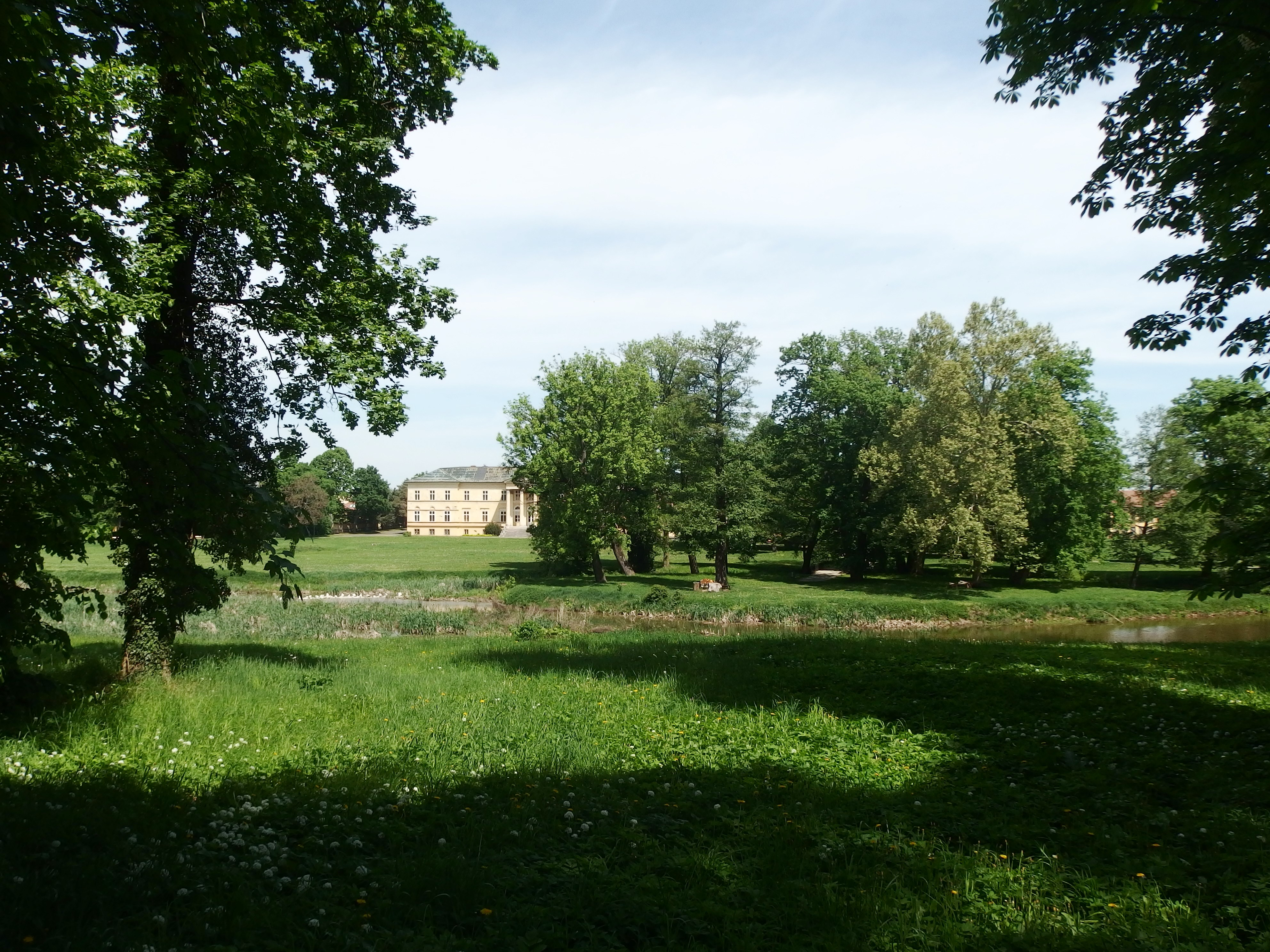 Dolná Krupá, Trnava District, Slovakia. Castle park.